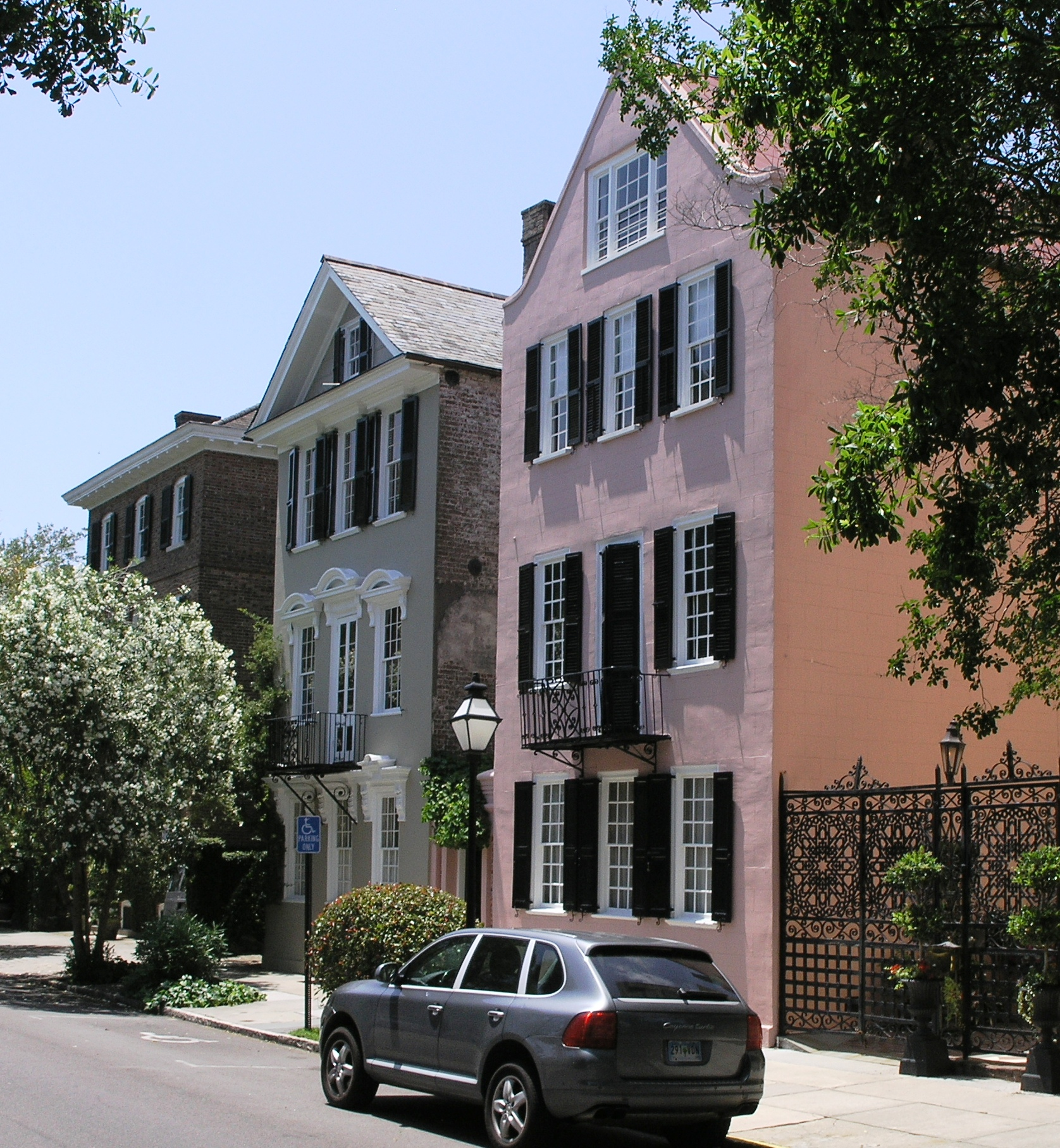 Photo in or around Charleston, South Carolina